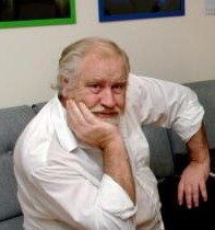 The image is cropped from the photo of Peter Schramm and Roar Lindberg during appearance in Slemmestad Library, Slemmestad